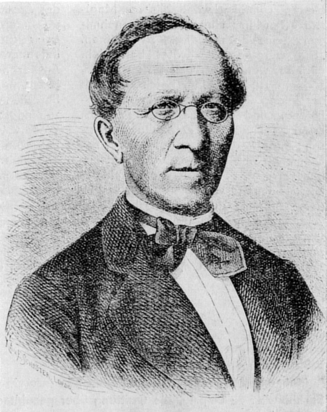 Dethloff Carl Hinstorff